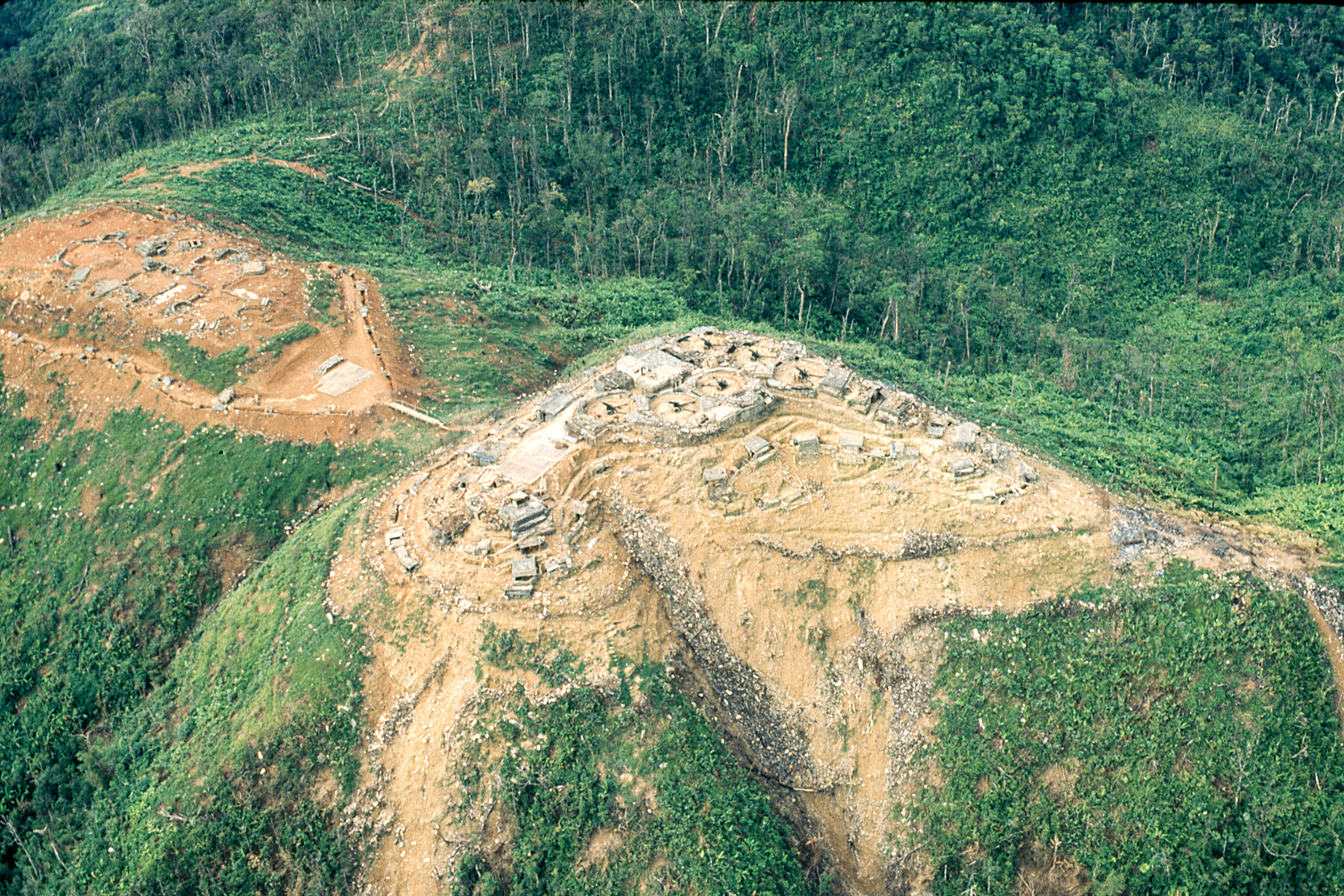 Fire Support Fuller prior to the June 1971 seige. Looking south..